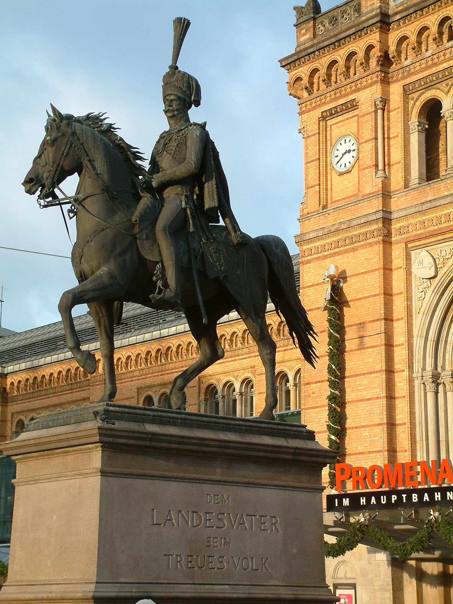 The statue of King Ernst August I. The inscription reads: "Dem Landesvater sein treues Volk". In the back you see Hannover's main railway station (Das Hauptbahnhof). The surrounding square was designed by Georg Ludwig Friedrich Laves in 1870. See where the photo was taken at Yuan.CC Maps.